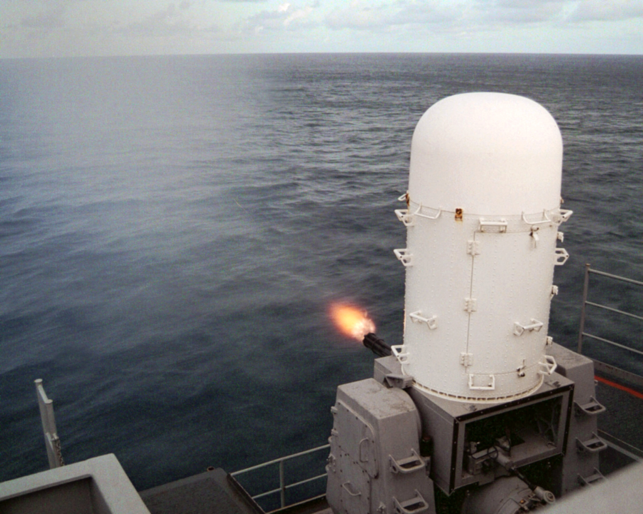 At sea aboard USS Theodore Roosevelt (CVN 71) Jan. 14, 2003 -- One of the ship’s “Phalanx” MK-15 Close In Weapons Systems (CIWS) fires a high-speed computer controlled, radar guided, 20 mm Gatling gun during a training exercise. Phalanx is capable of firing 4,500 rounds per minute, and provides ships of the U.S. Navy with a "last-chance" defense against anti-ship missiles and littoral warfare threats that have penetrated other fleet defenses. Phalanx automatically detects, tracks and engages anti-air warfare threats such as anti-ship missiles and aircraft. Roosevelt is currently underway conducting training missions in the Atlantic Ocean. U.S. Navy photo by Photographer’s Mate 2nd Class Angela M. Virnig. (RELEASED)